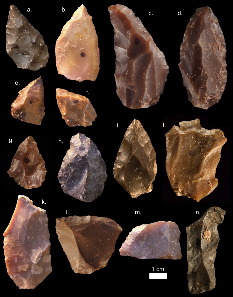 Some of the Middle Stone Age stone tools from Jebel Irhoud (Morocco). Dated to 300 thousand years ago.